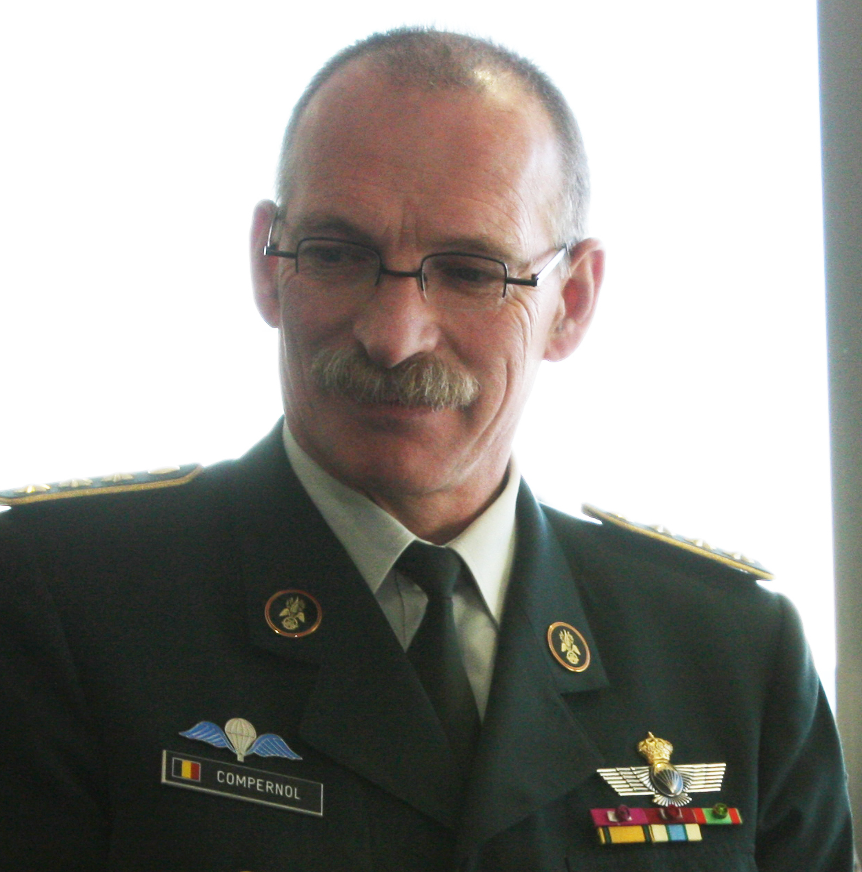 Lt. Col. Michelle Garcia, U.S. Army Corps of Engineers Europe District deputy commander, is greeted by NATO’s supreme commander Adm. James Stavridis during the NATO Special Operations Headquarters ribbon-cutting ceremony at SHAPE in Mons, Belgium Dec. 12, 2012. (U.S. Army Corps of Engineers photo by Jennifer Aldridge)